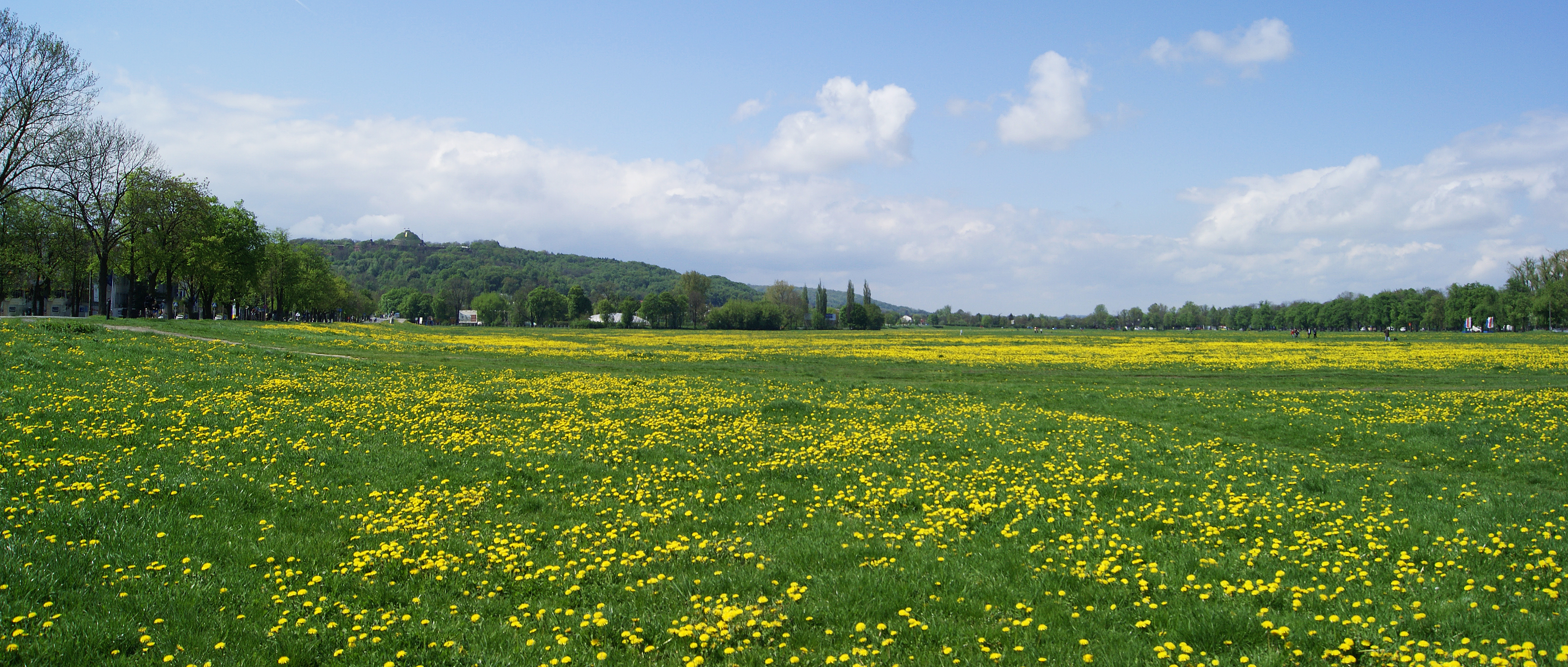 Krakow Blonia (Meadow) view to W,Krakow,Poland